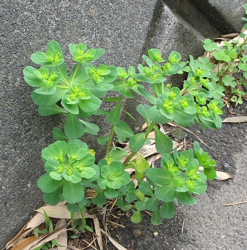 Photograph of Euphorbia helioscopia,taken in Machida city, Tokyo, Japan. Croped & resized.